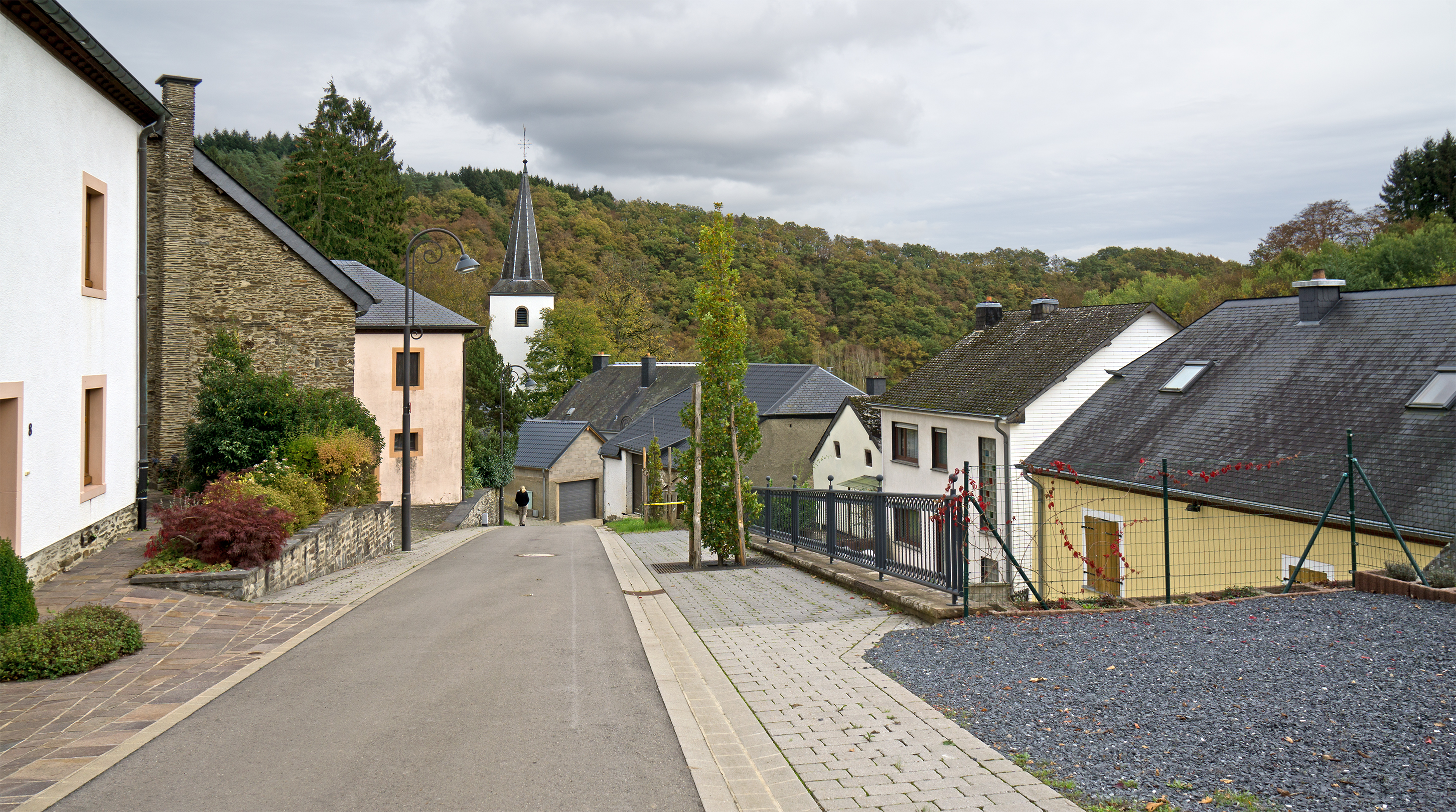 View from Harelerberg to the church of Bavigne